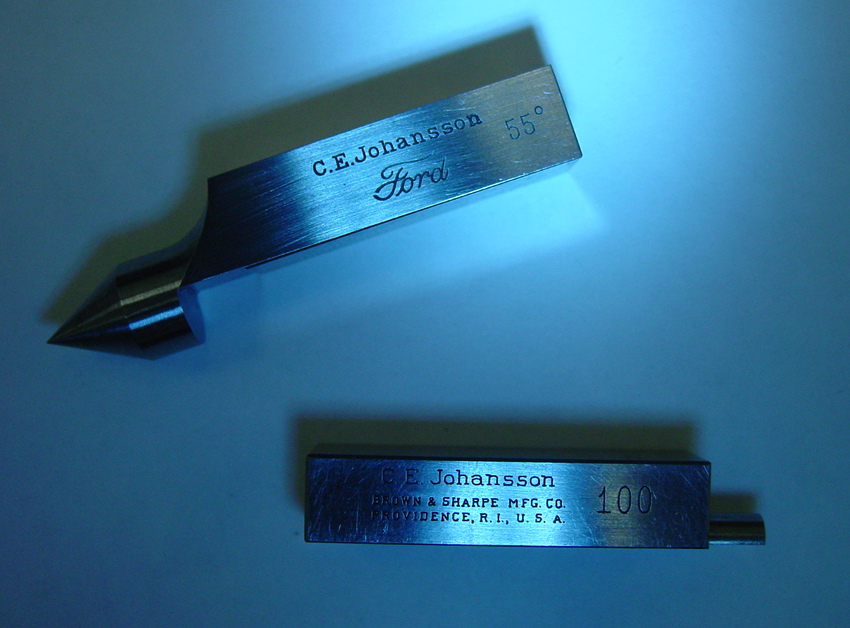 Some example gauge block accessories showing the co-branding of the C.E. Johansson (CEJ), Ford, and Brown & Sharpe (B&S) logos.